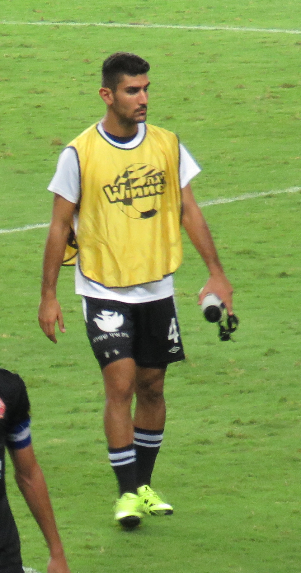 Hapoel Ra'anana vs. Hapoel Be'er Sheva - September 12, 2015